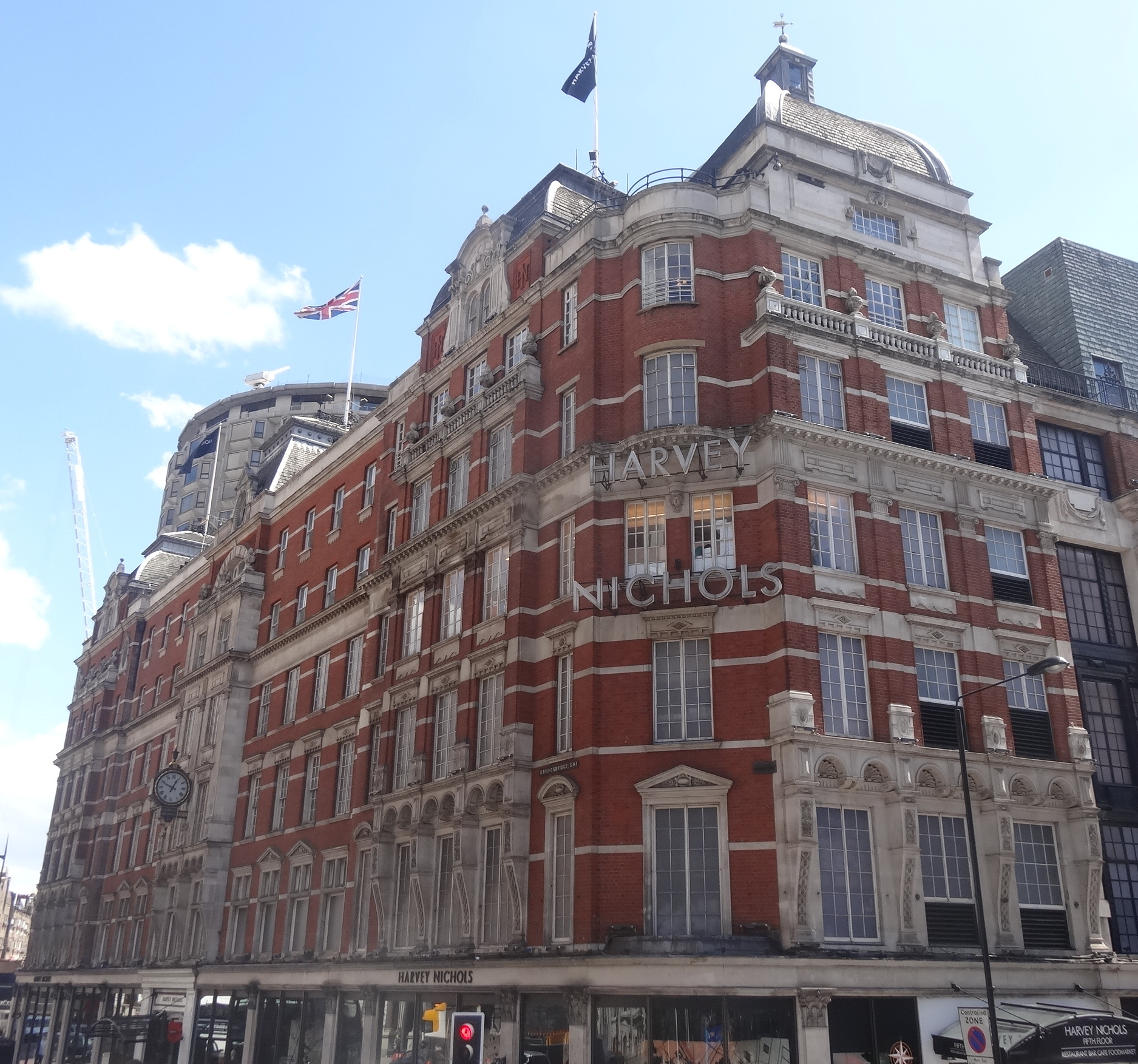 Harvey Nichols, Knightsbridge store